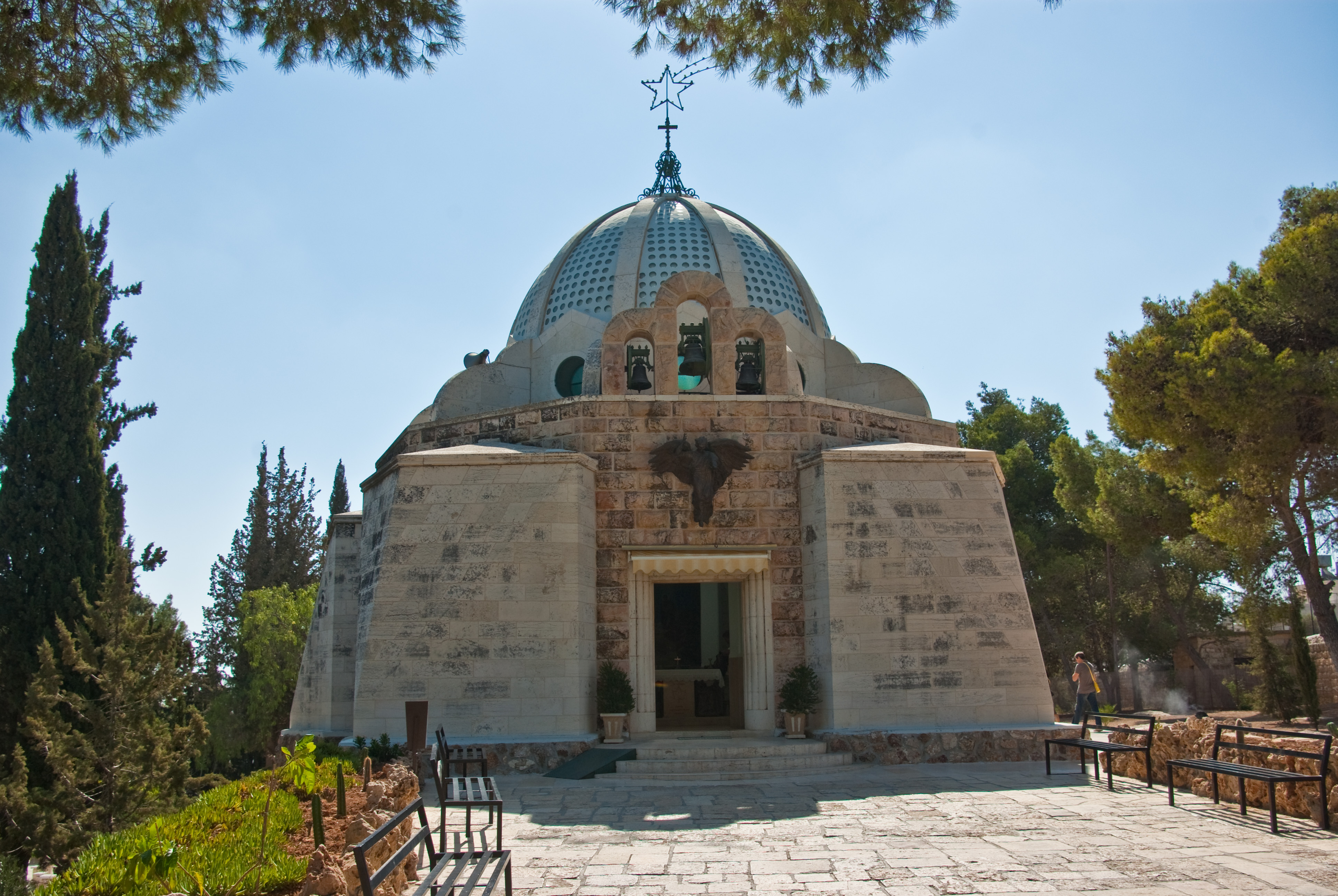 Roman Catholic Franciscan Chapel on the Shepherds' Field in Beit Sahour, Bethlehem